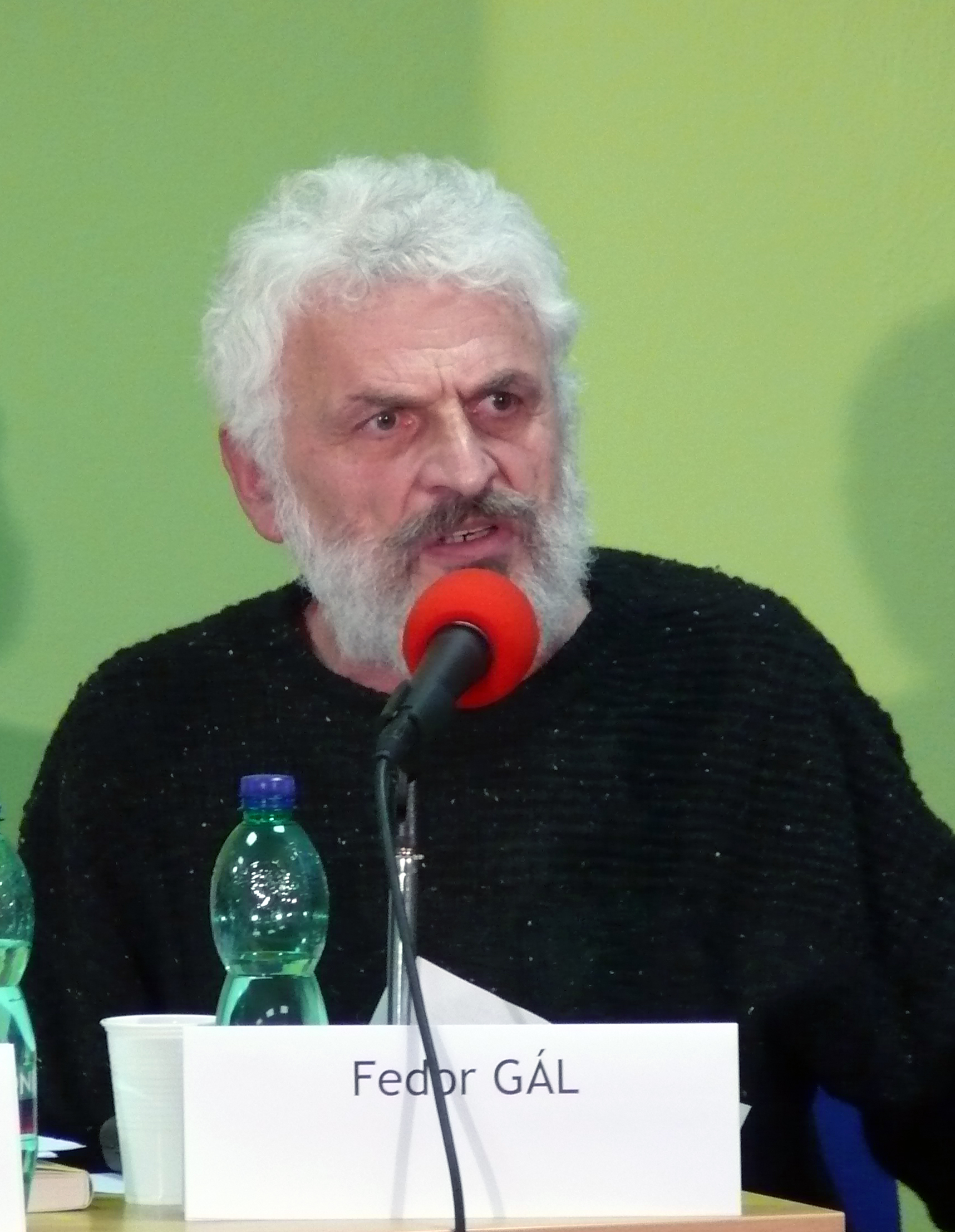 Fedor Gál